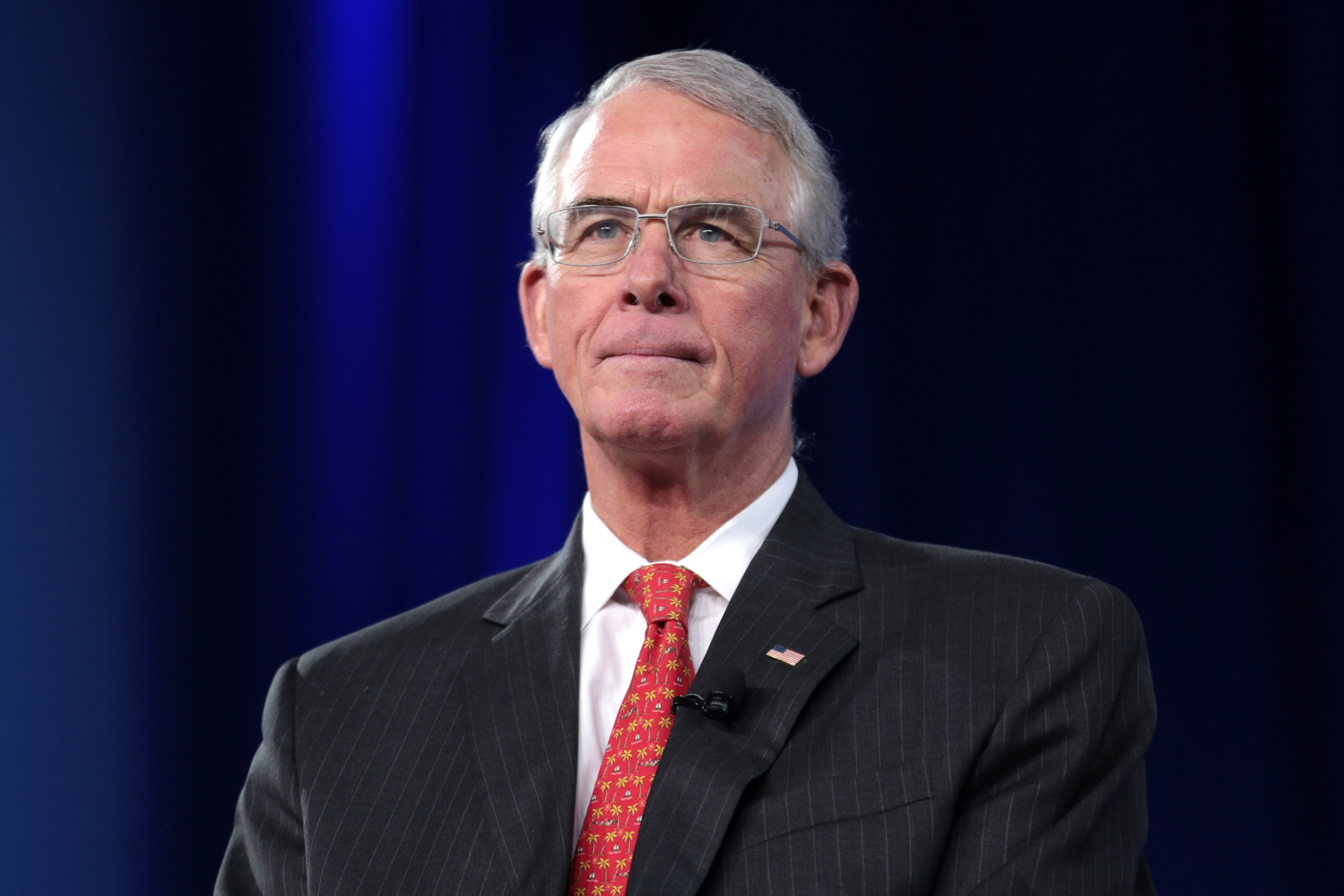 Ambassador Francis Rooney speaking at the 2017 Conservative Political Action Conference (CPAC) in National Harbor, Maryland.